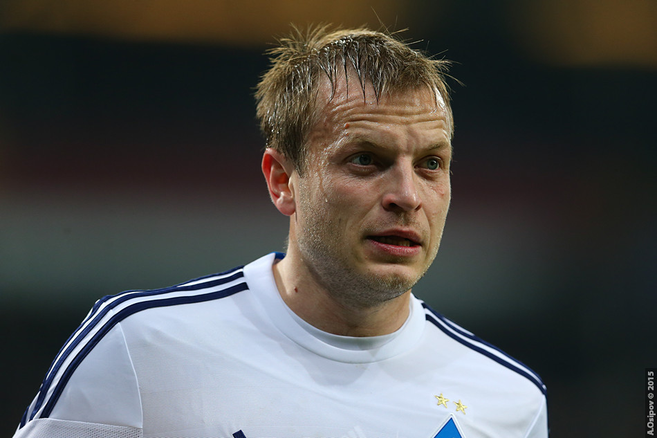 UEFA Europa League 2014-15 1/8 Final NSK Olimpiyskyi - Kyiv 19/03/2015 - 19:00CET (20:00 local time) Round of 16, Second leg Dynamo Kyiv - Everton - 5:2 Goals: Yarmolenko 21 Lukaku 29 Teodorczyk 35 Miguel Veloso 37 Gusev 56 Antunes 76 Jagielka 82 Aggregate: 6-4